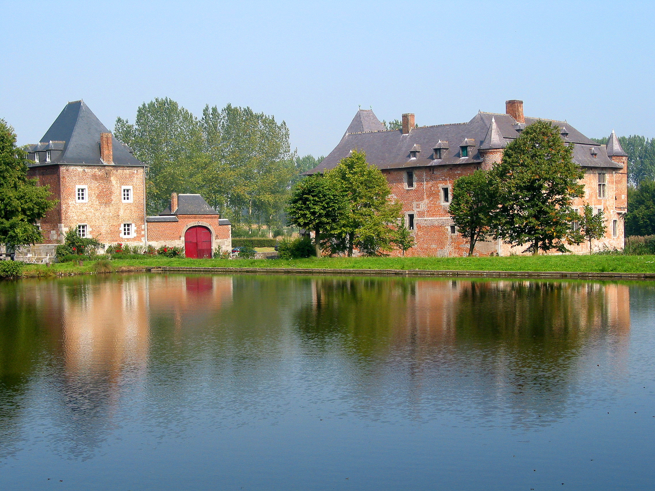 Noville-les-Bois (Belgium), the Fernelmont castle (XIII/XVIIth centuries).